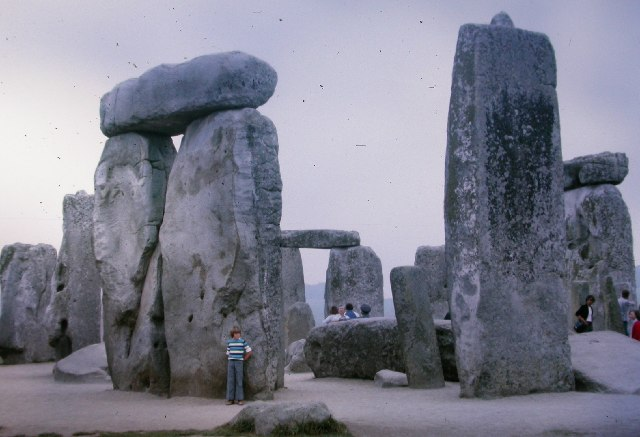 Stonehenge. Originally a slide this photo was submitted as it shows that access was once allowed to the stones. It also gives a sense of the scale of this ancient monument, something that is difficult to appreciate at distance. The solitary figure is an average height 10 year old - approx 1.4m (4.5ft)